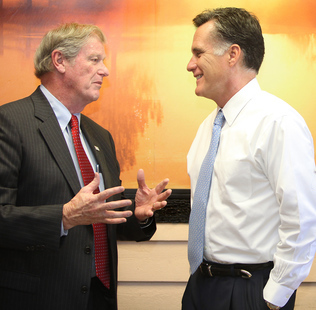 Accompanying note: "Republican presidential candidate Mitt Romney visited Tallahassee during his 2012 unsuccessful campaign and met with local business owners at a luncheon. Here, he speaks with state Sen. John Thrasher, R-St. Augustine, while Tallahassee Democrat reporter Bill Cotterell takes a picture."